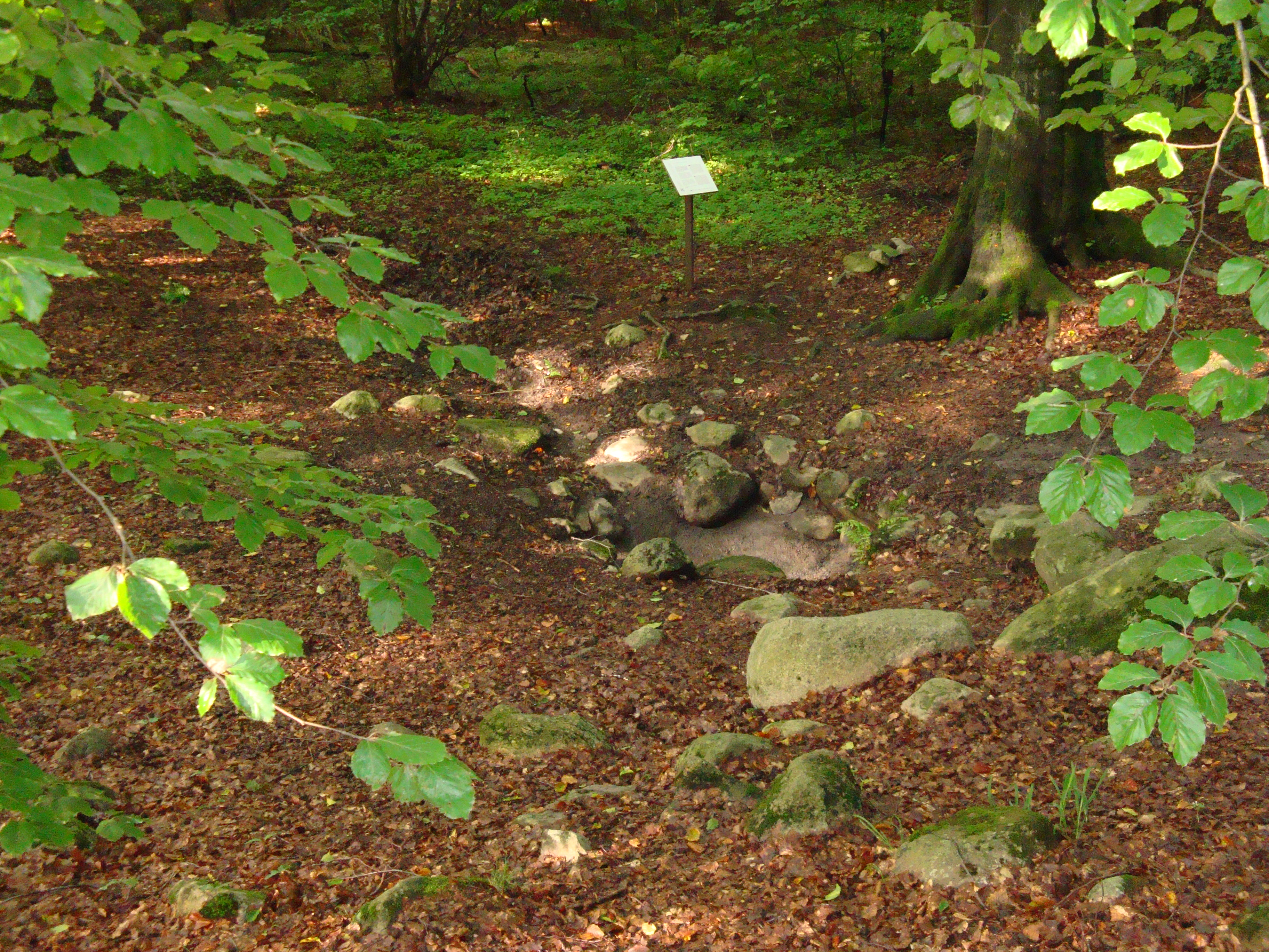 The well of Saint Magnhild